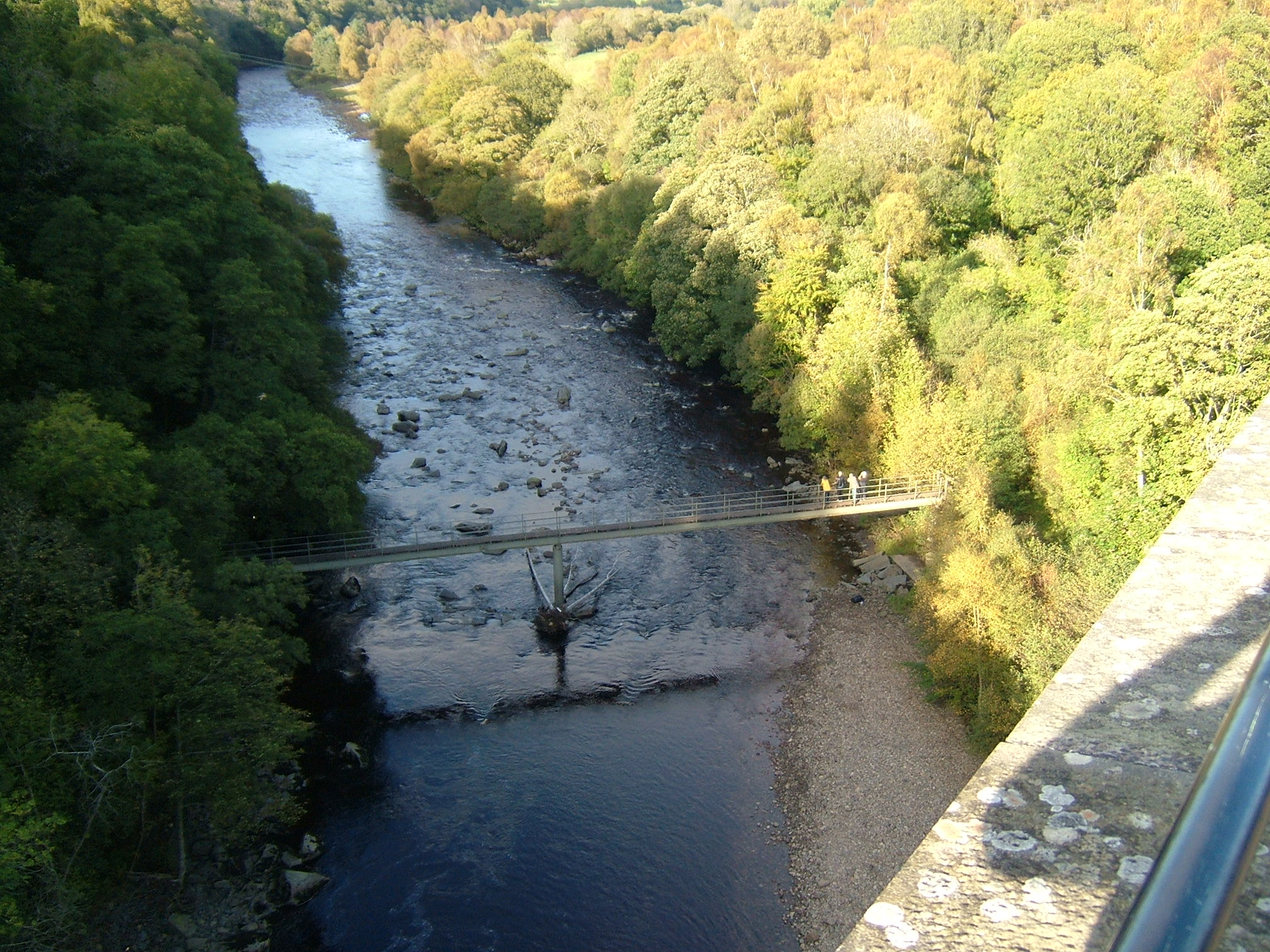 The 13 arch Lambley viaduct was constructed over the River South Tyne in 1852 to complete theAlston Line between Haltwhistle in Northumberland and Alston in Cumbria. The line closed in May 1976. The trackbed is now a walking trail, the South Tyne Trail [1] Looking downstream at footbridge